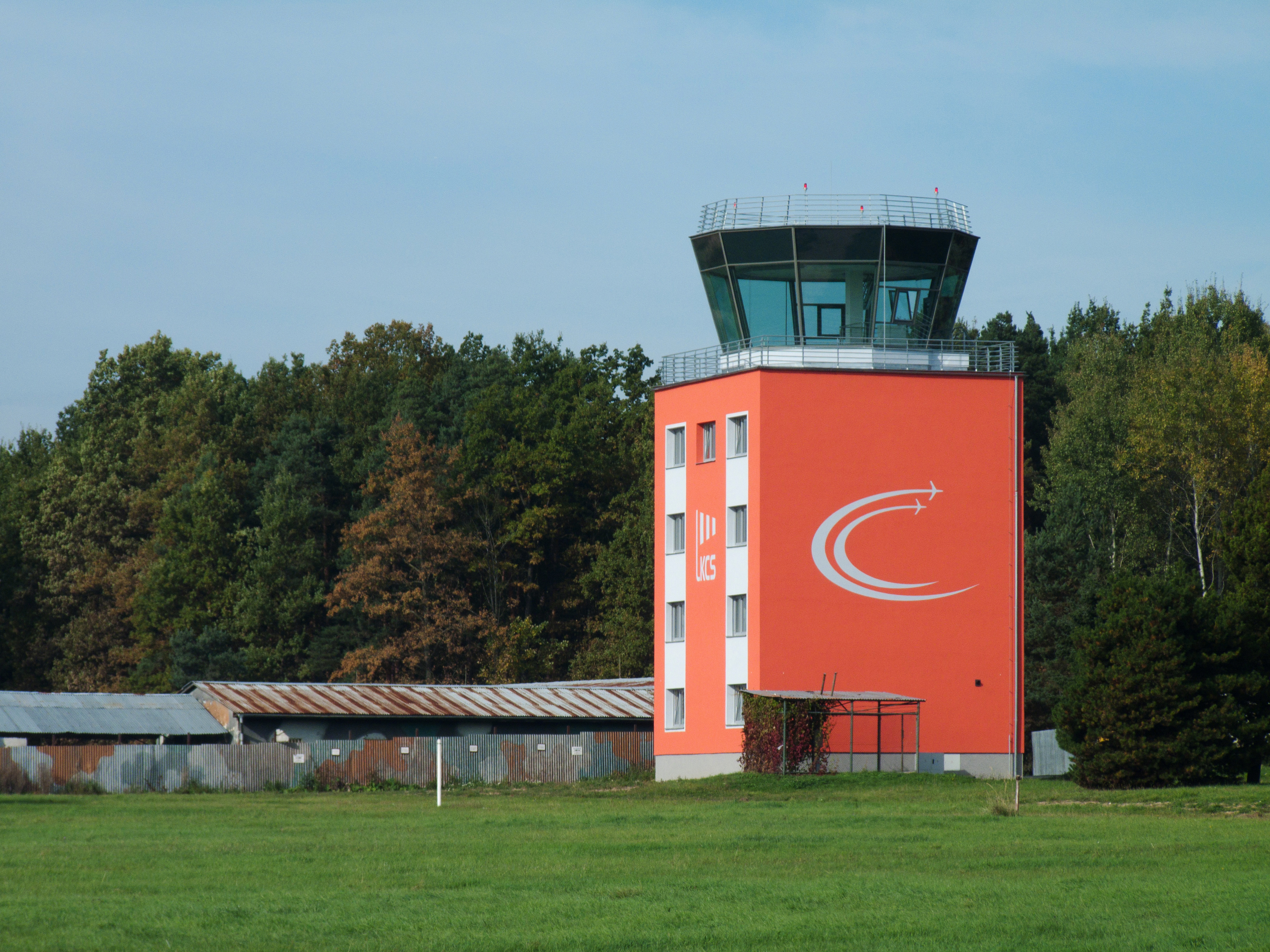 New airport tower at České Budějovice Airport, Czech Republic